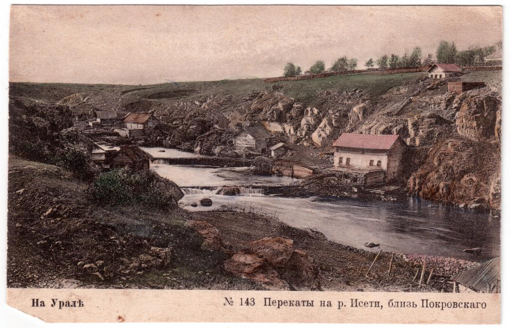 Revun Rapid on Iset River, Sverdlovsk oblast, Russia